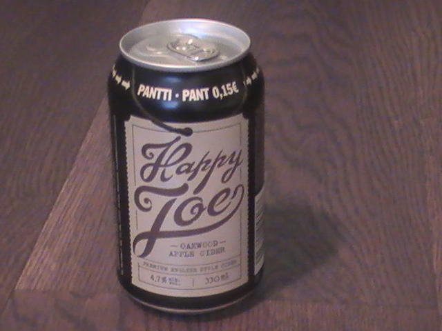 Happy Joe's Oakwood Apple-cider can, maded by Hartwall.